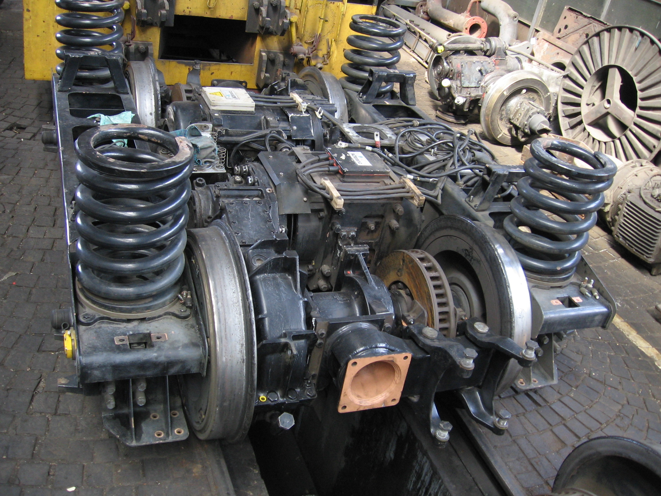 Driving bogie of ZSSK EMU Class 425.95